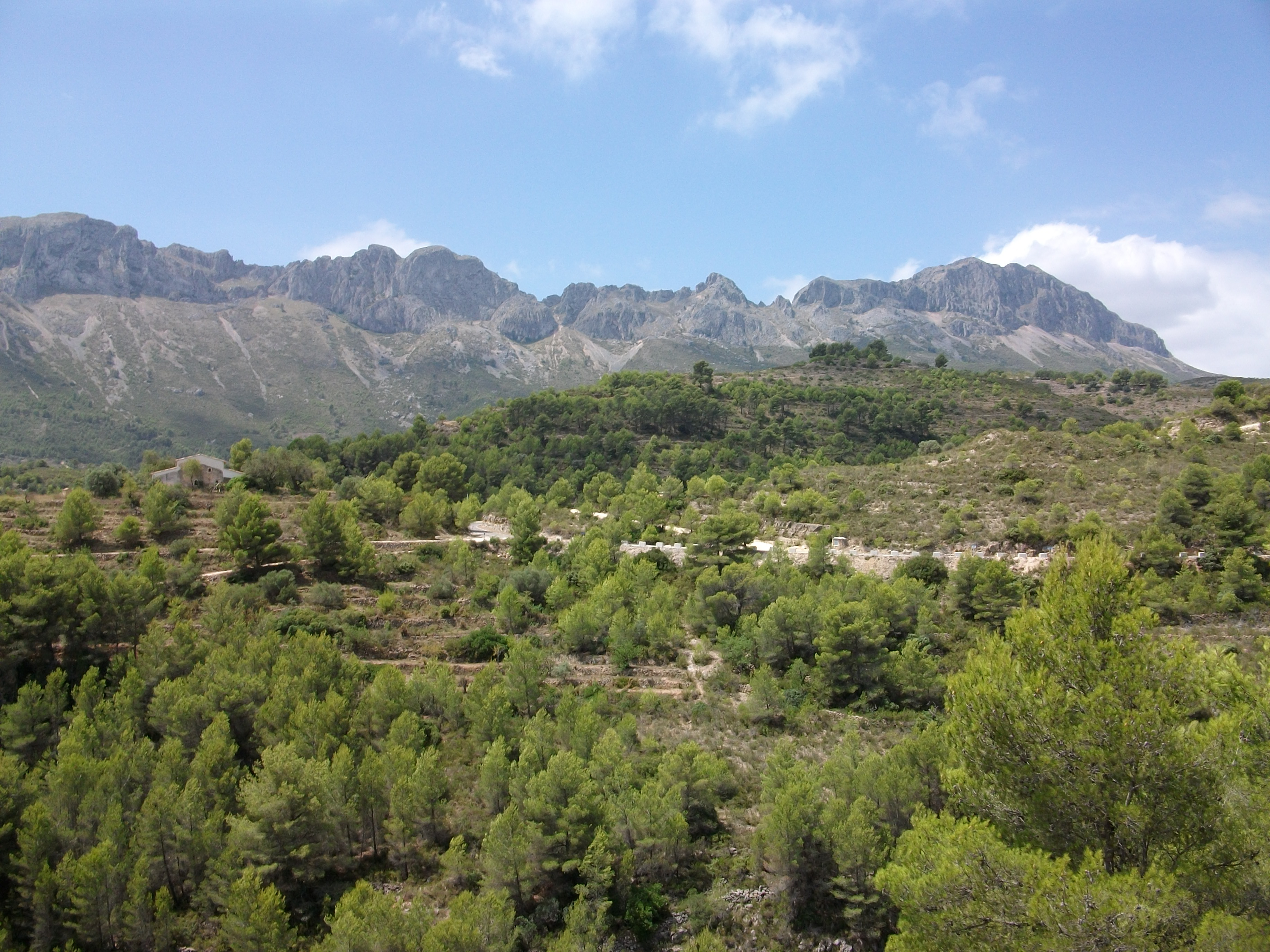 View of Bernia, dividing between the Marina Alta and the Baixa, in the Land of Valencia.